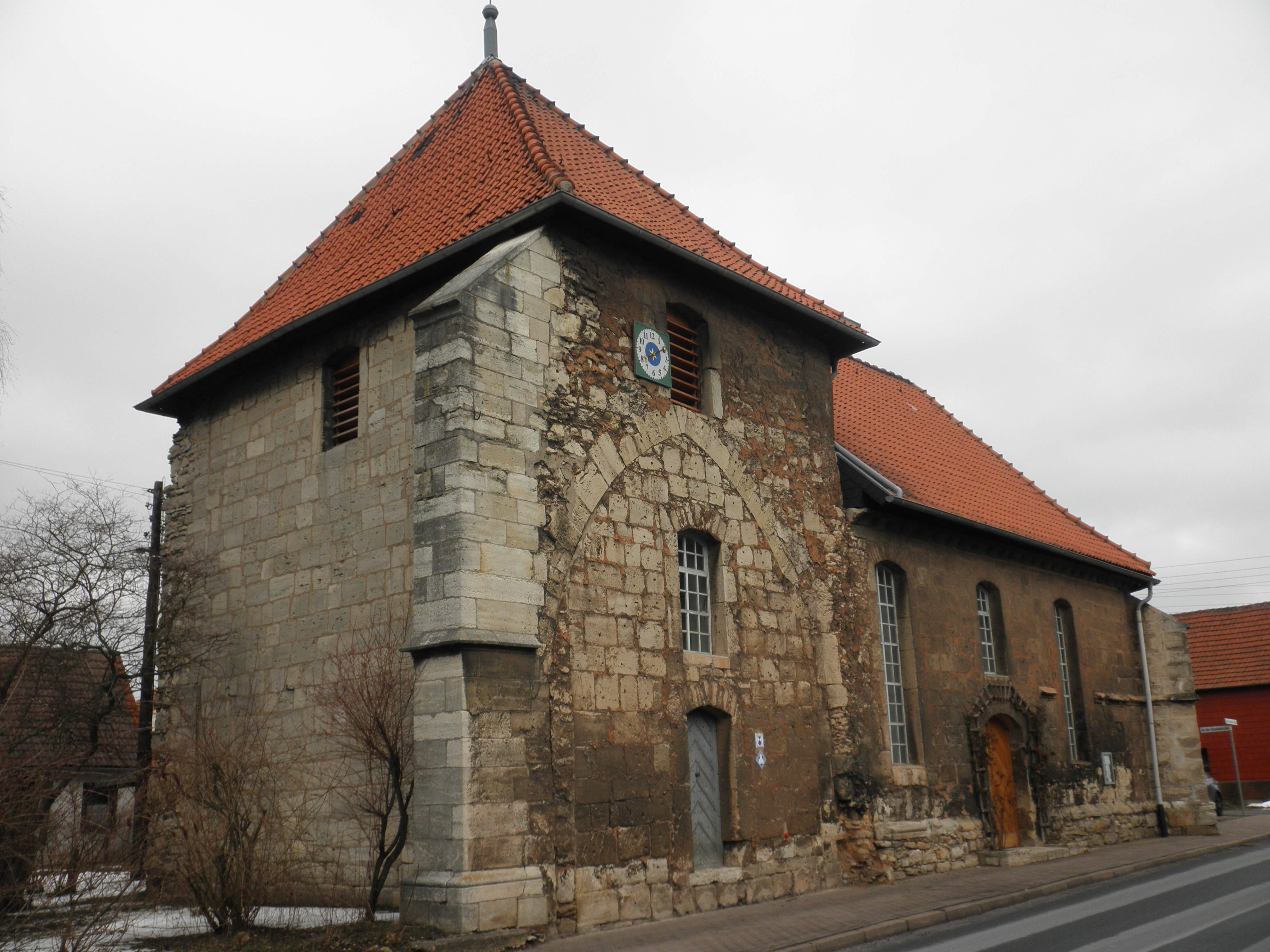 Church in Elende (Bleicherode) in Thuringia